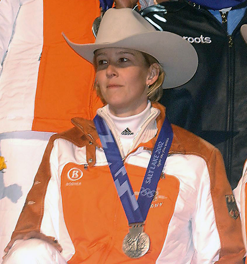 The first winners in the 2002 OLYMPIC WINTER GAMES debut for women's bobsledding. (Counterclockwise) Germany's Sandra Prokoff and Ulrike Holzner, silver medallist; Germany's Nicole Herschmann, Susi-Lisa Erdmann, bronze medallists; and USA's World Class Athlete Specialist Jill Bakken, USA, and Vonetta Flowers, gold medallist; smile for the crowd moment after being presented their medals for the women's two-man bobsled during the 2002 WINTER OLYMPIC GAMES.